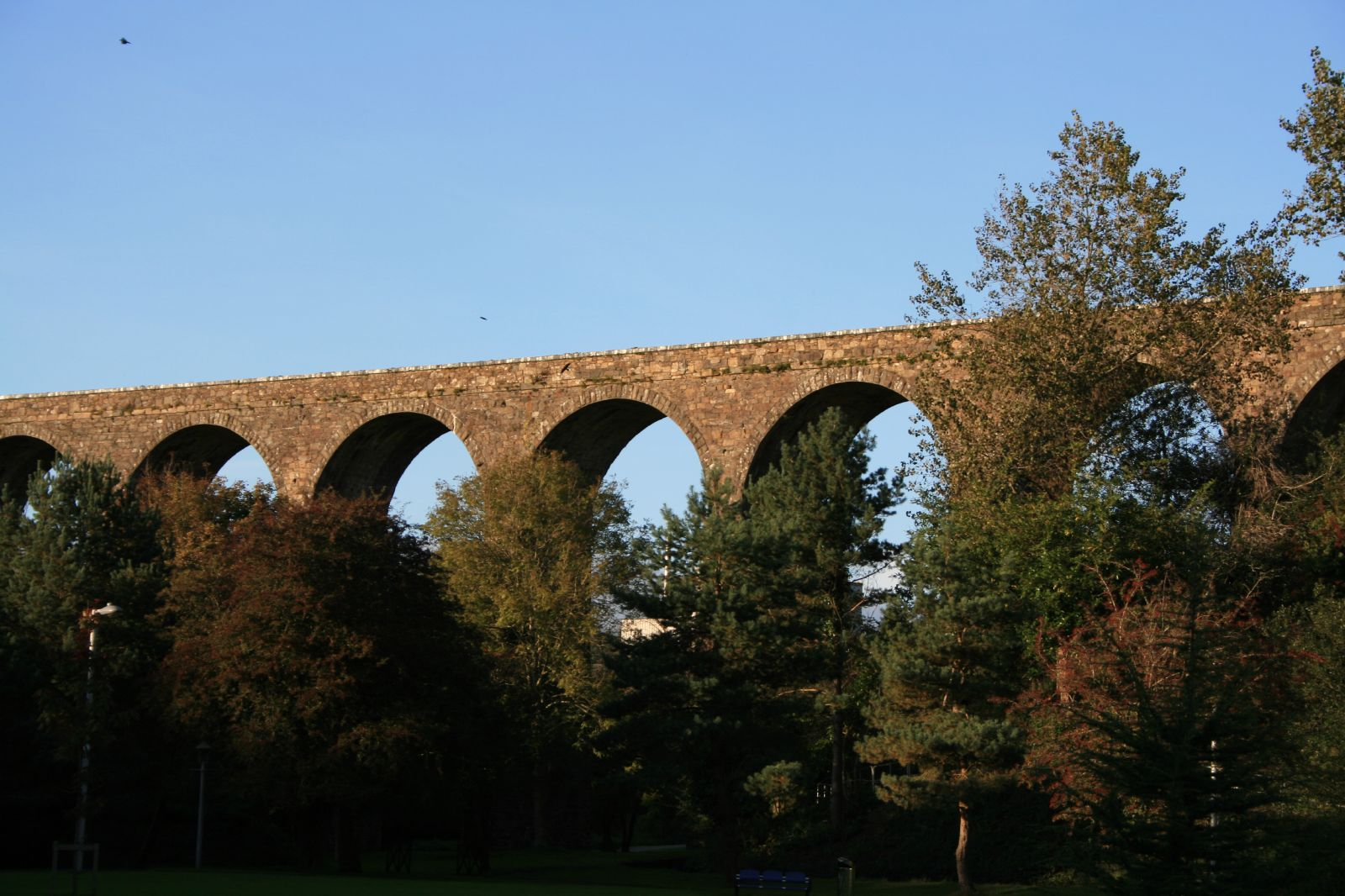 A view of the Railway Viaduct in Kilmacthomas, Co Waterford, Ireland. (Nov 2007, Cannon EOS 400D, Lens Model: EF-S18-55mm f/3.5-5.6).